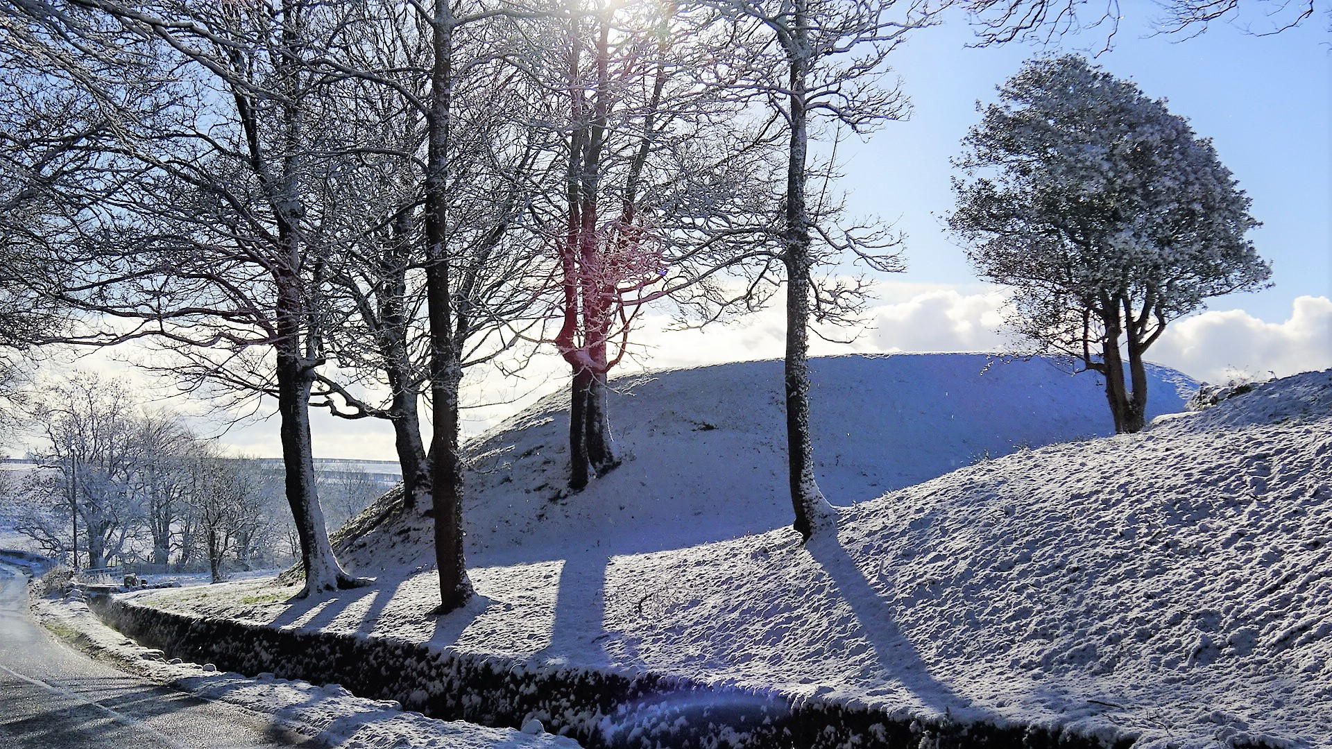 A possible folly. Chapel Hill, Chapel Hill House, East Ayrshire, Scotland. A burial mound has been suggested bit no professional excavations have taken place.